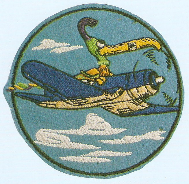 Scanned from *Crowder, Michael J. (2000). United States Marine Corps Aviation Squadron Lineage, Insignia & History - Volume One - The Fighter Squadrons. Turner Publishing Company. ISBN 1-56311-926-9. Squadron logo for VMF-462